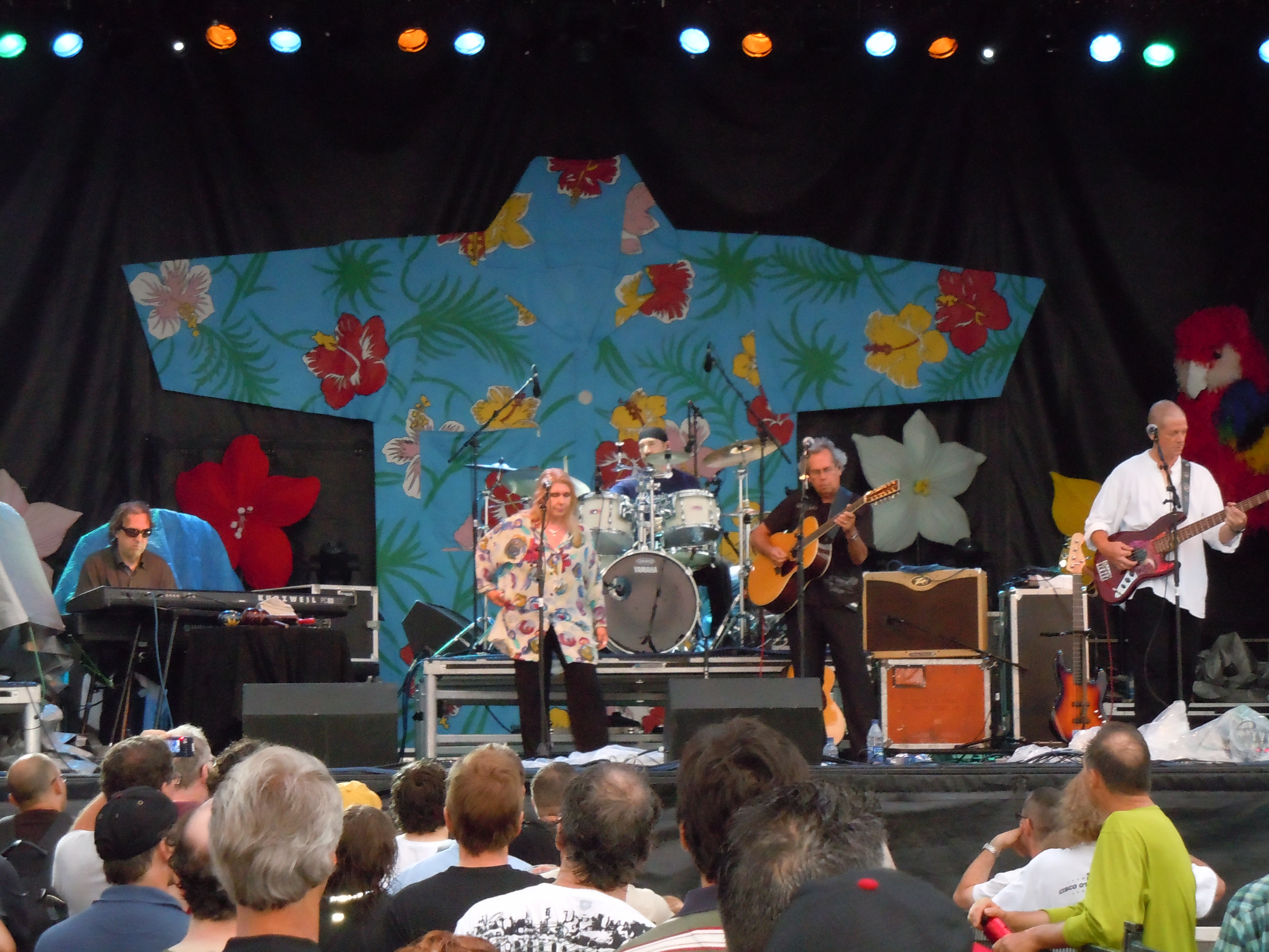 Annie Haslam performing with Renaissance at Ottawa Bluesfest in July 2010